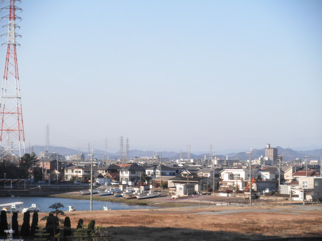 Honjyo Harimatown Hyogopref background